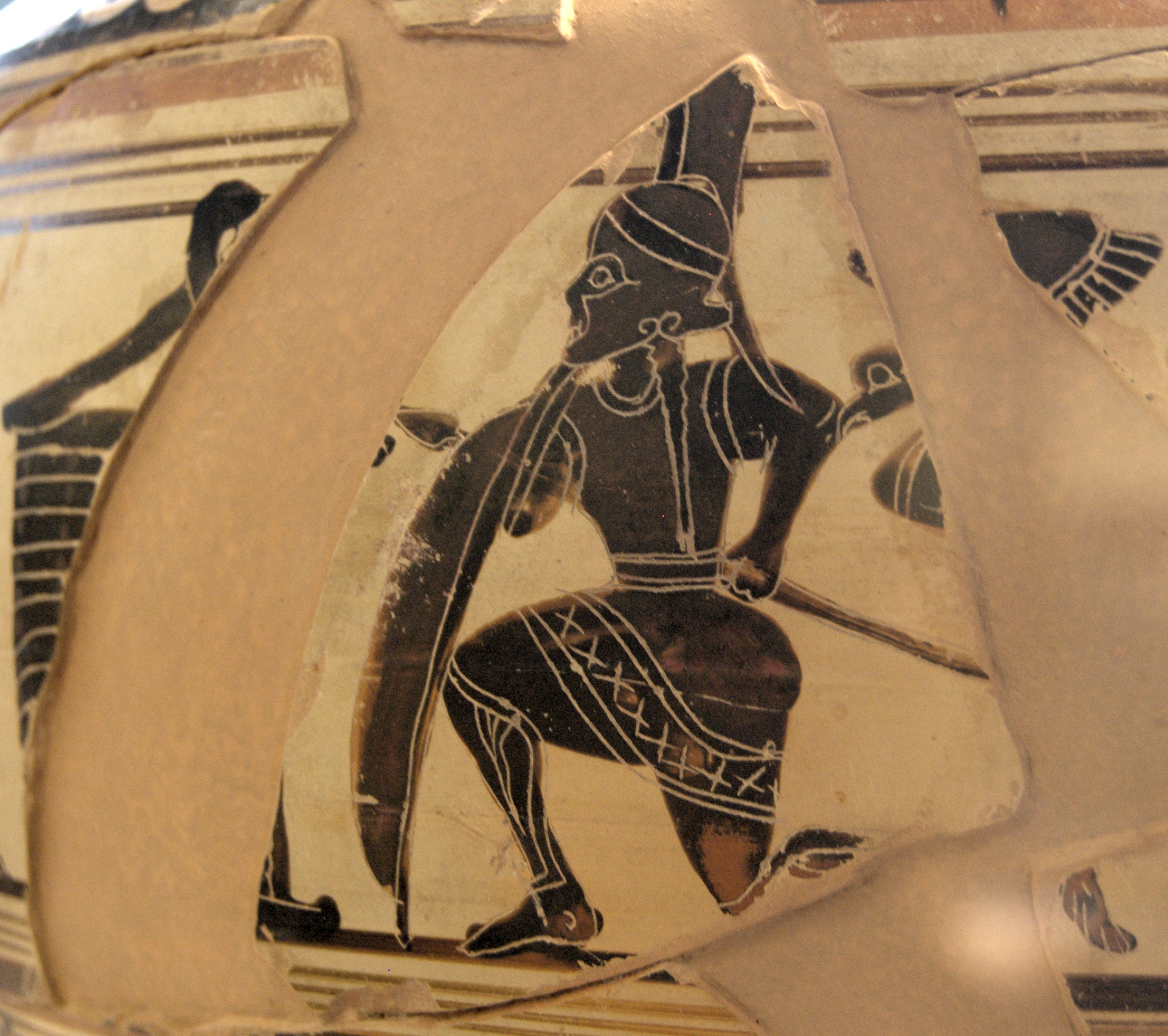 Achilles ambushing Troilus (to the left on the vase). Laconian black-figured dinos, 560–540 BC.